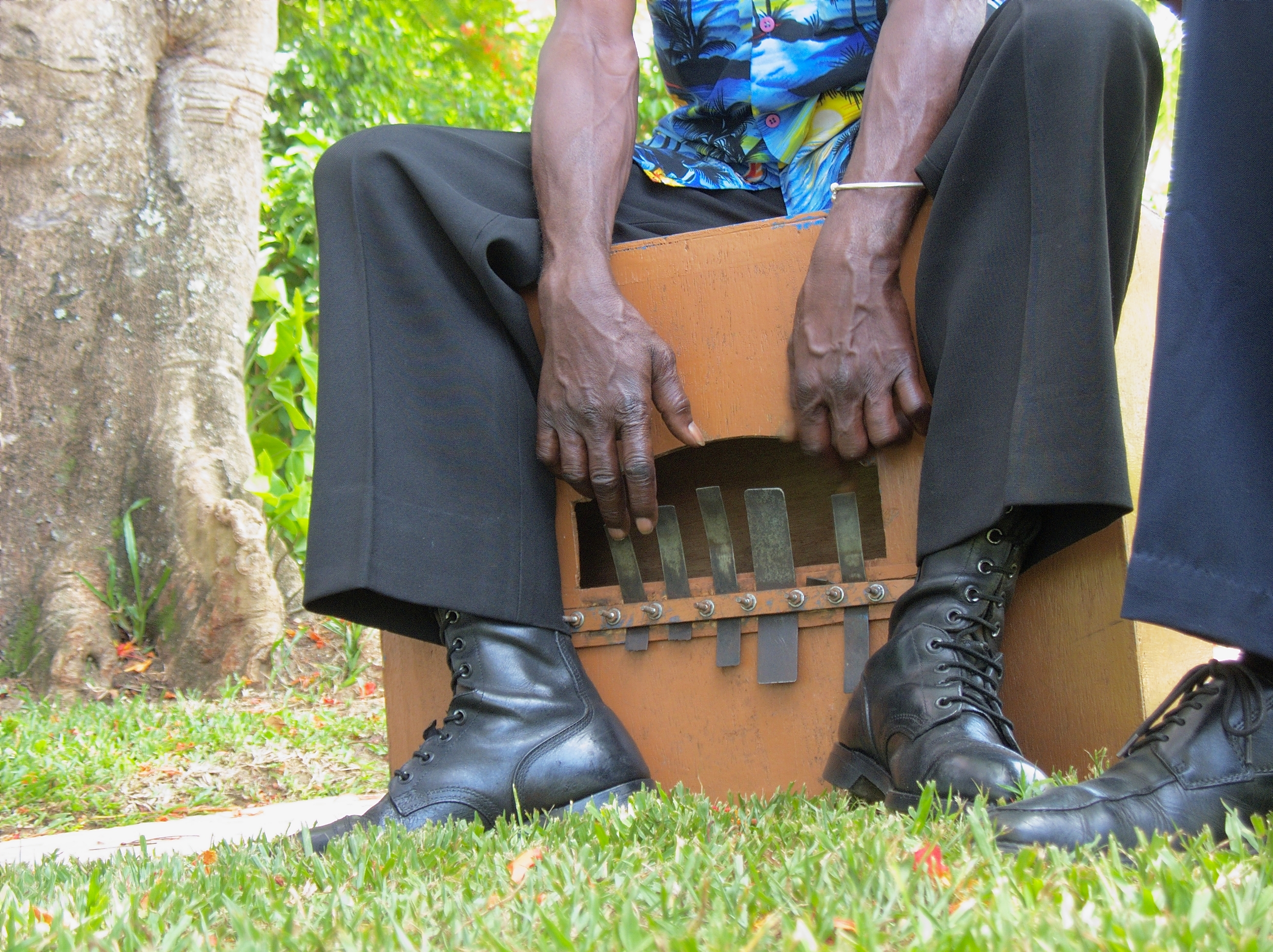 Marímbula/Rhumba Box